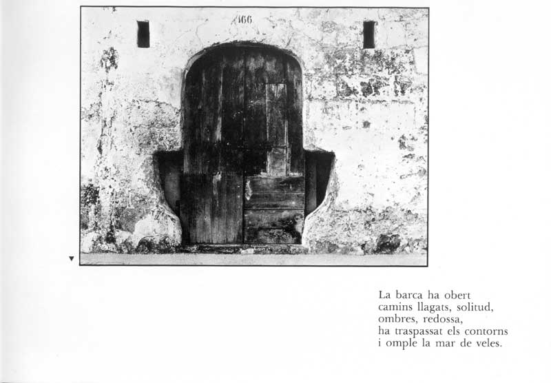 extrait de Tanka